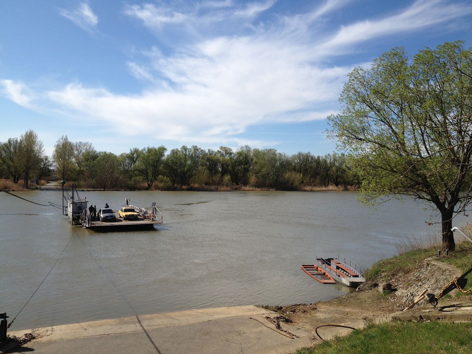 the ferry from Tiszatardos to Tiszalök in Hungary